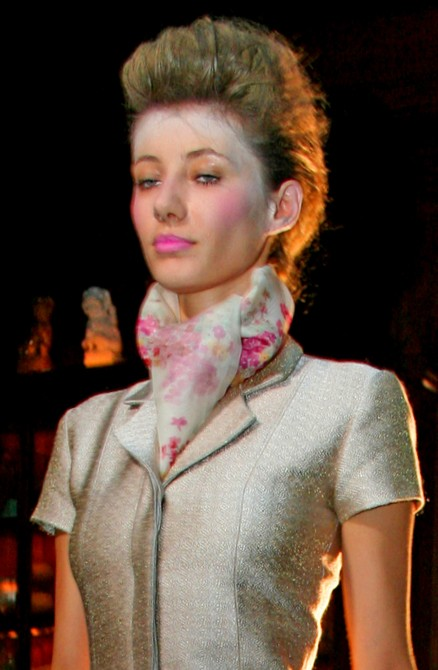 Andreea Stancu modeling in Ruffian spring 2008 show, New York Fashion Week.